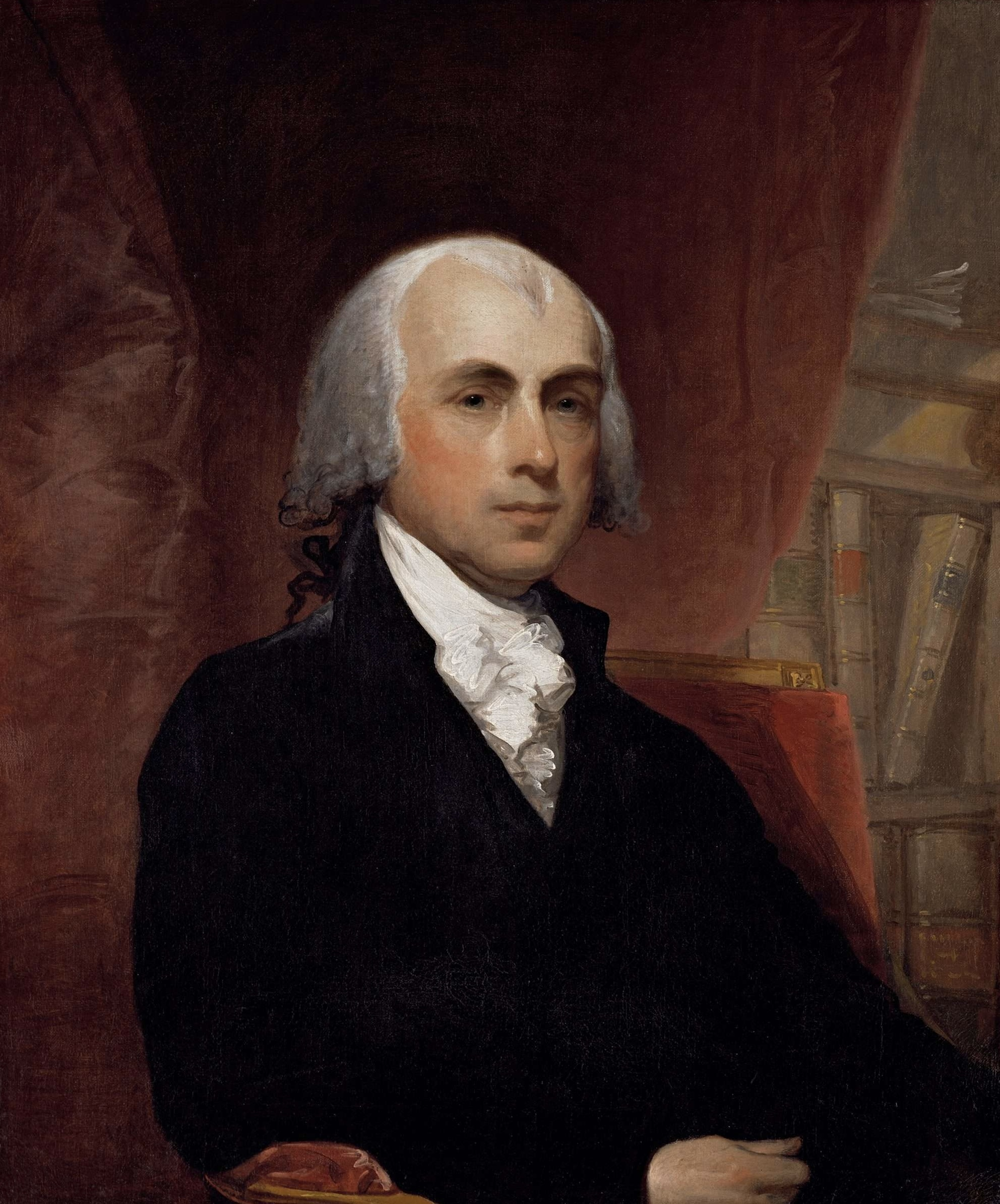 "James Madison," oil on canvas, by the American painter Gilbert Stuart, 1804. 29.5 in. x 24.63 in. Courtesy of the Colonial Williamsburg Foundation. Image courtesy of The Athenaeum.